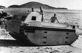 Early testing of the Amtrac on Porterico.